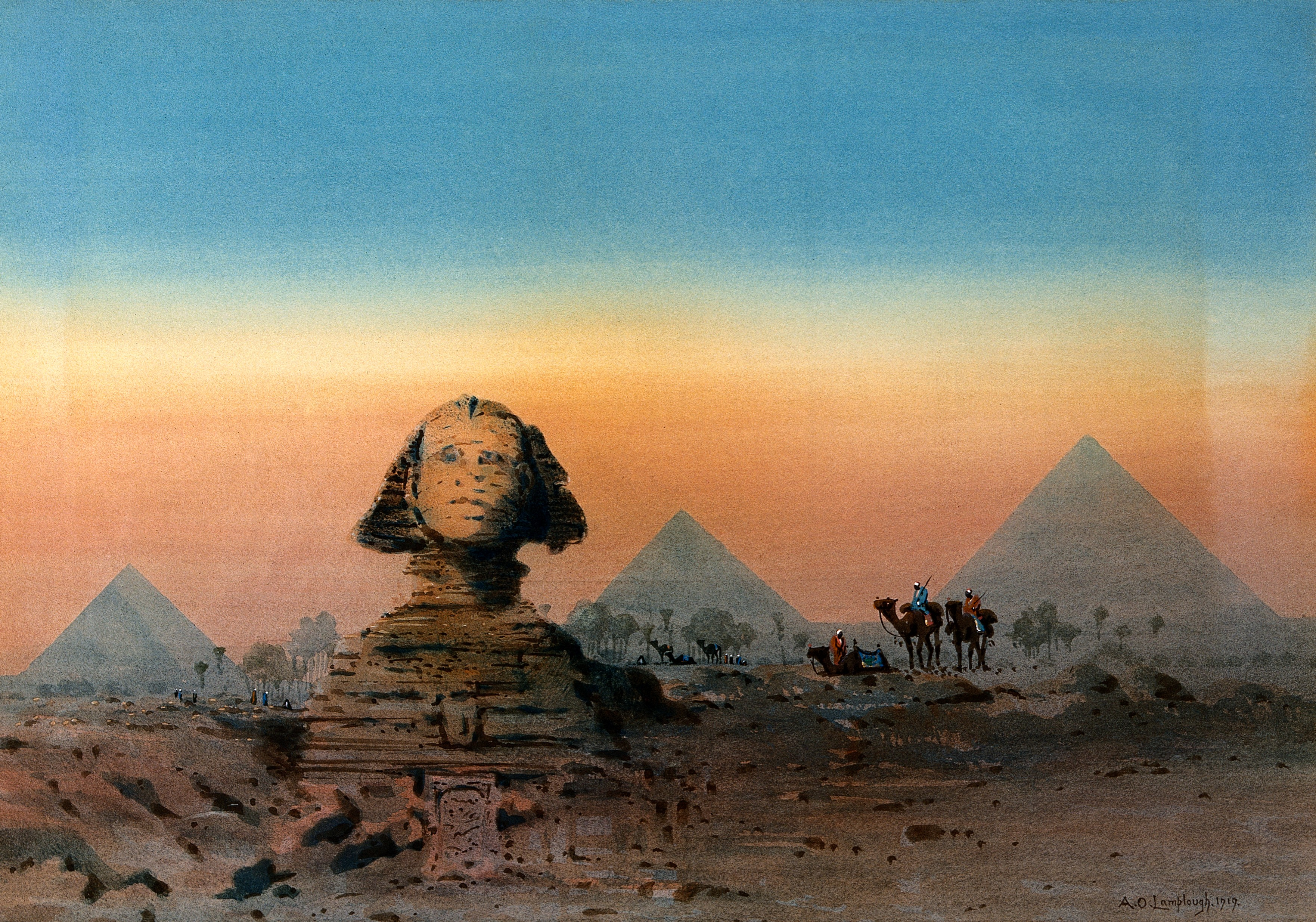 The Sphinx and the Pyramids in Egypt. Watercolour by A.O. Lamplough, 1919. Iconographic Collections